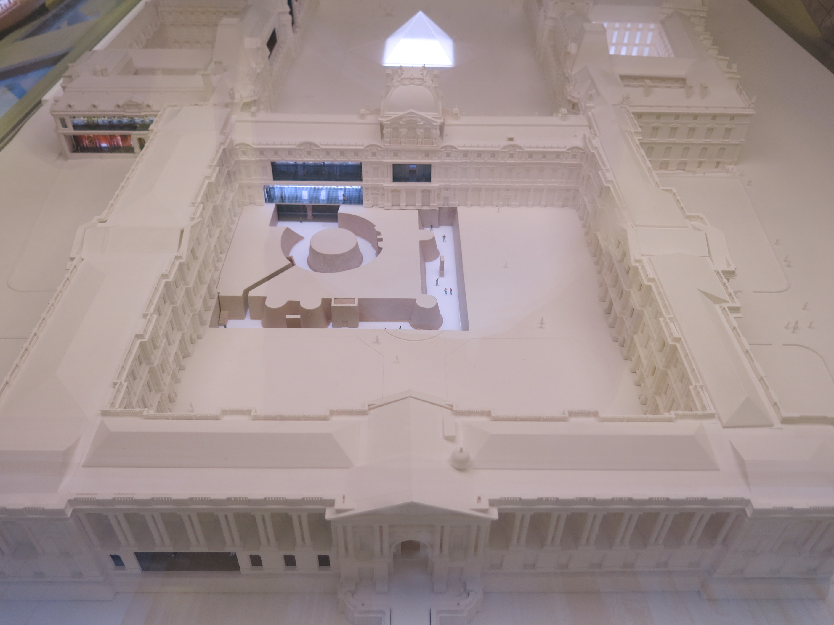 Model showing the place of the Louvre medieval in the cour Carrée. Louvre museum (Paris, France).